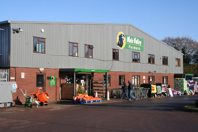 Cullompton: Mole Valley Farmers. Retail outlet on the Honiton road